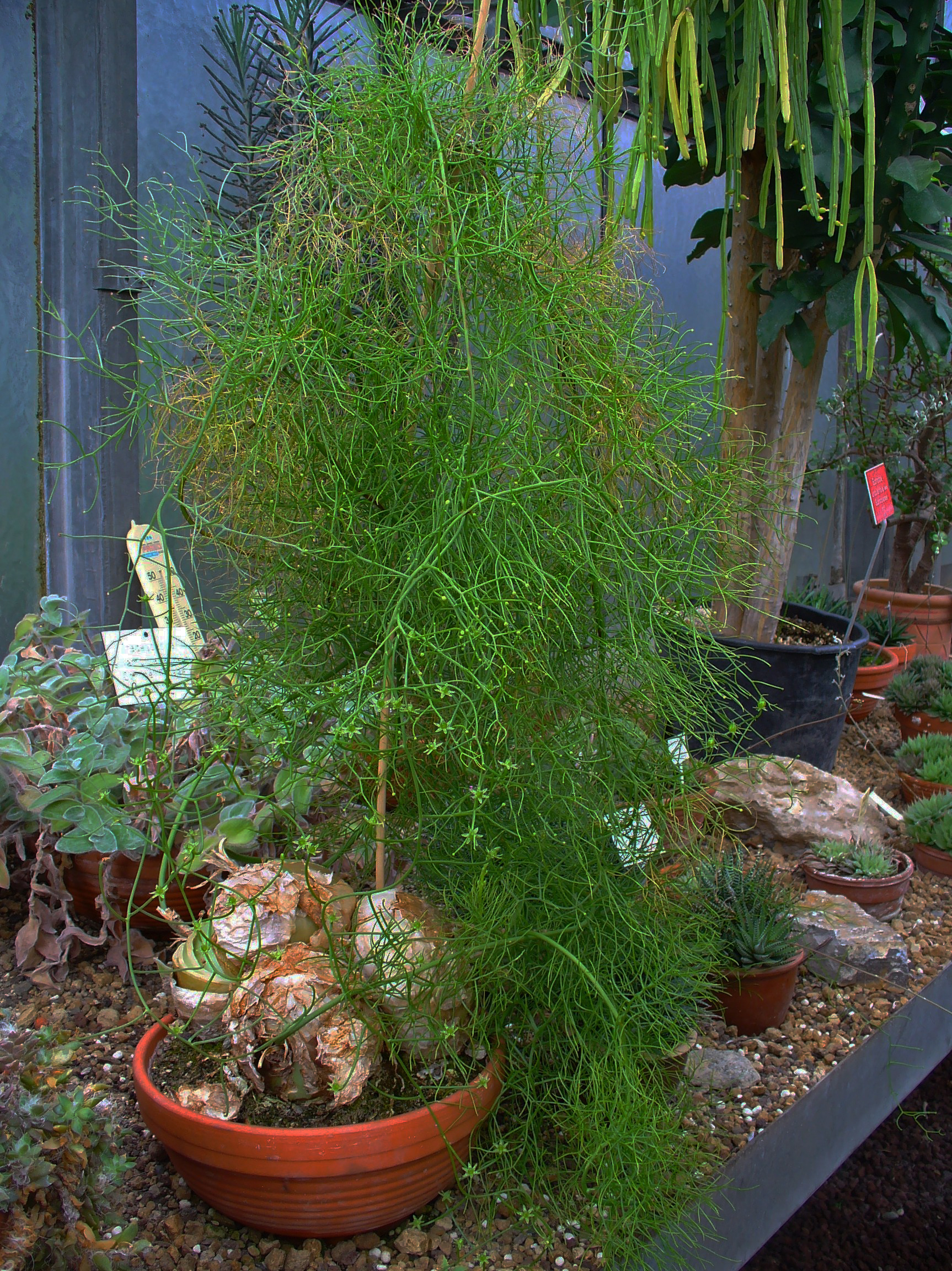 Bowiea volubilis, Hyacinthaceae, Climbing Onion, Zulu Potato, habitus; Botanical Garden KIT, Karlsruhe, Germany.